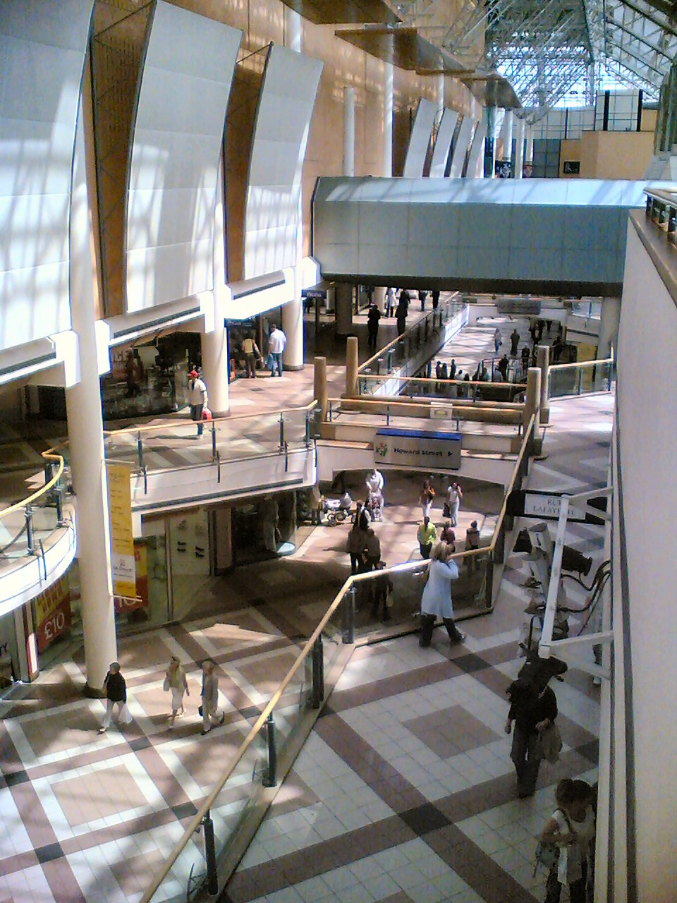 View from upper gallery inside St Enoch Centre, Glasgow.